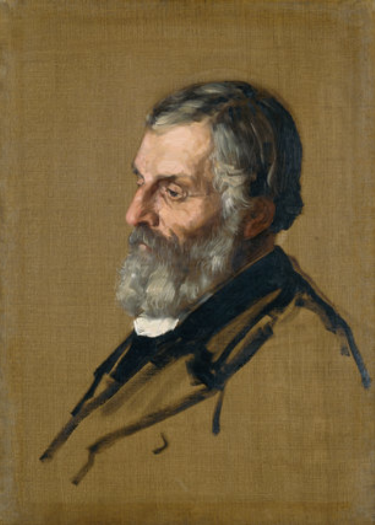 Portrait of the Reverend Robert Burn, by Alphonse Legros (1880)